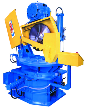 Miter Saw